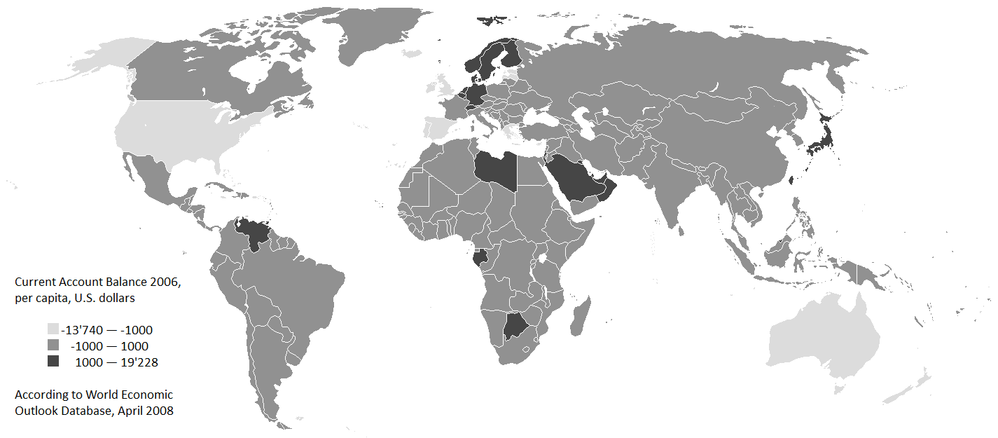 Current Account Balance 2006, per capita, U.S. dollars